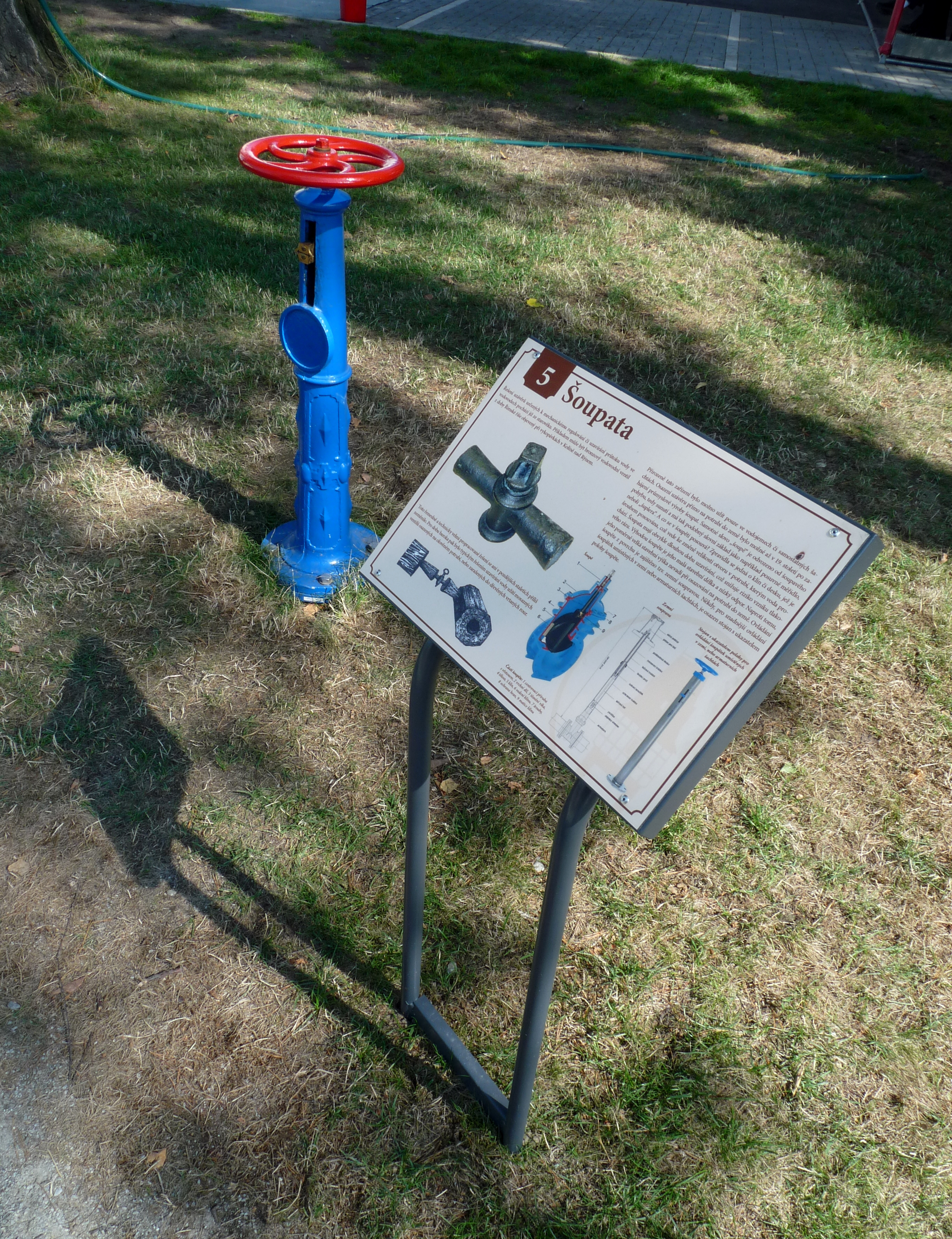 Information panel No 5 of the educational trail History of Water Supply in České Budějovice in České Budějovice, South Bohemian Region, Czech Republic.